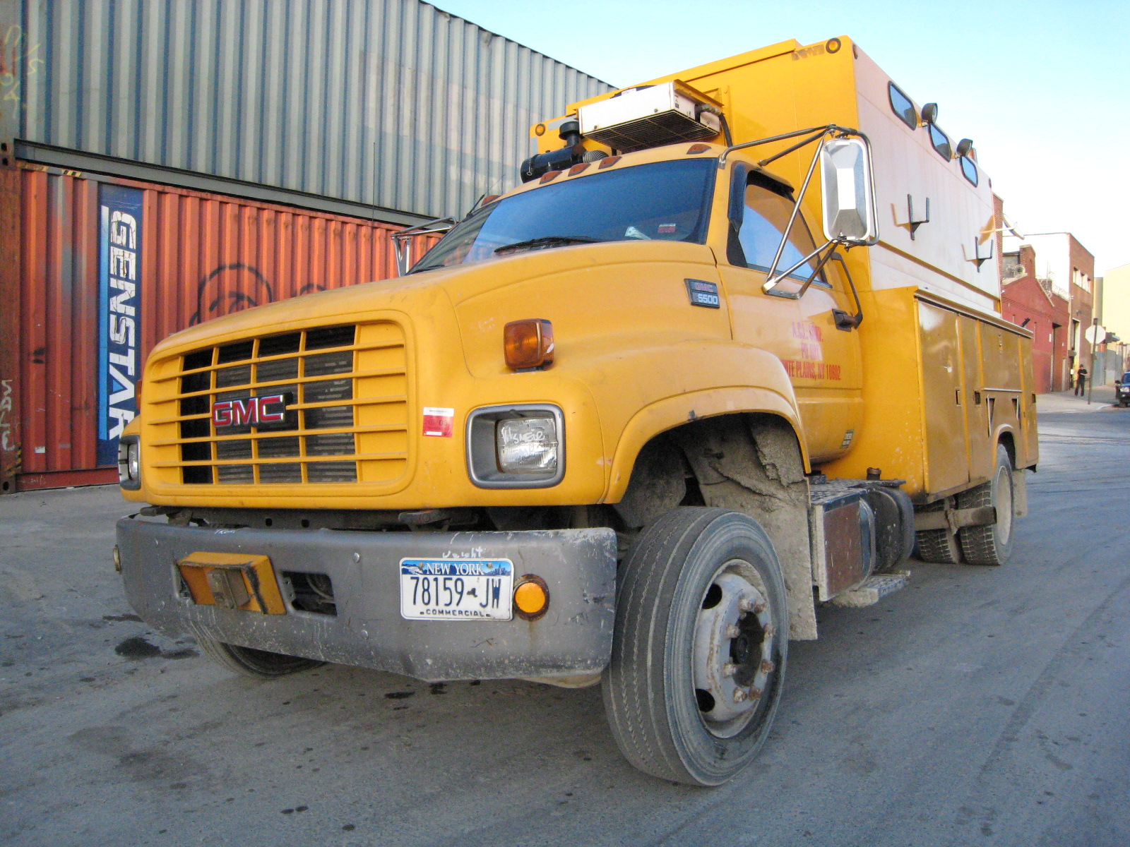 cool yellow truck, closeup